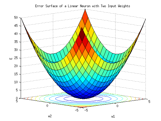 The error surface of a linear neuron with a squared error. The z-axis is the squared error. The x and y-axis are the input weights, w1 and w2, to the neuron . The correct output is zero.